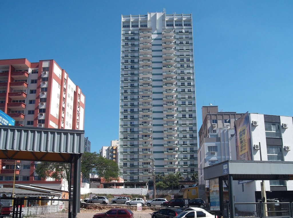 Building in Criciúma SC